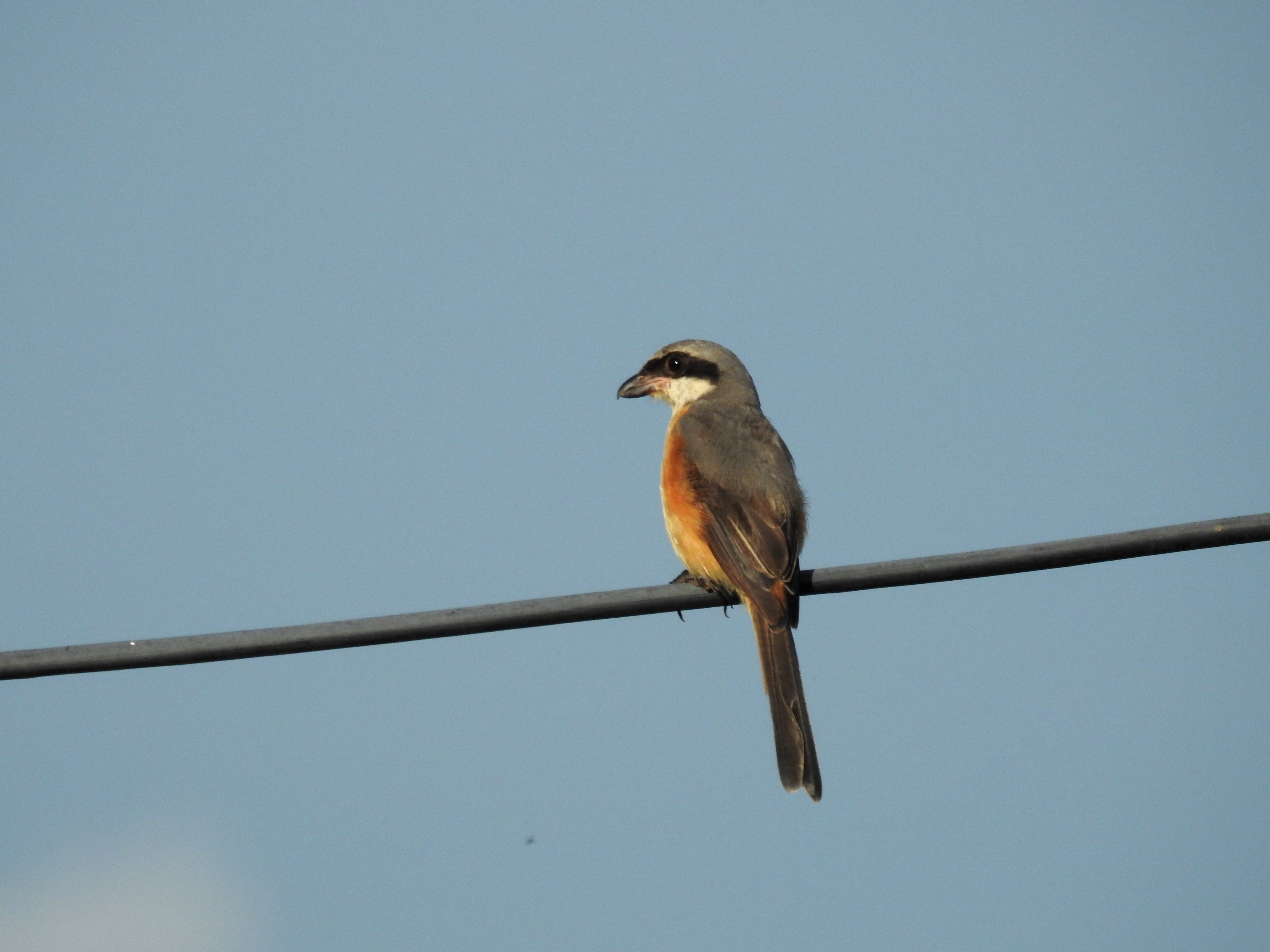 Grey-backed Shrike in Mizoram University campus near Aizawl, Mizoram, India